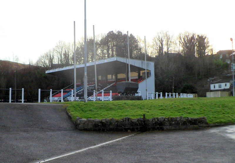 Stand at Sardis Road Rugby Ground, Pontypridd